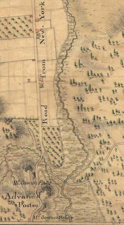 Detail of British military map of upper Manhattan (showing the approximate area from present-day 101st St to 118th St, west of Fifth Avenue). "A map of part of New-York Island showing a plan of Fort Washington, now call'd Ft. Kniphausen with the rebels lines on the south part, from which they were driven on the 16th of November 1776 by the troupes under the orders of the Earl of Percy. Survey'd the same day by order of His Lordship by C. J. Sauthier."